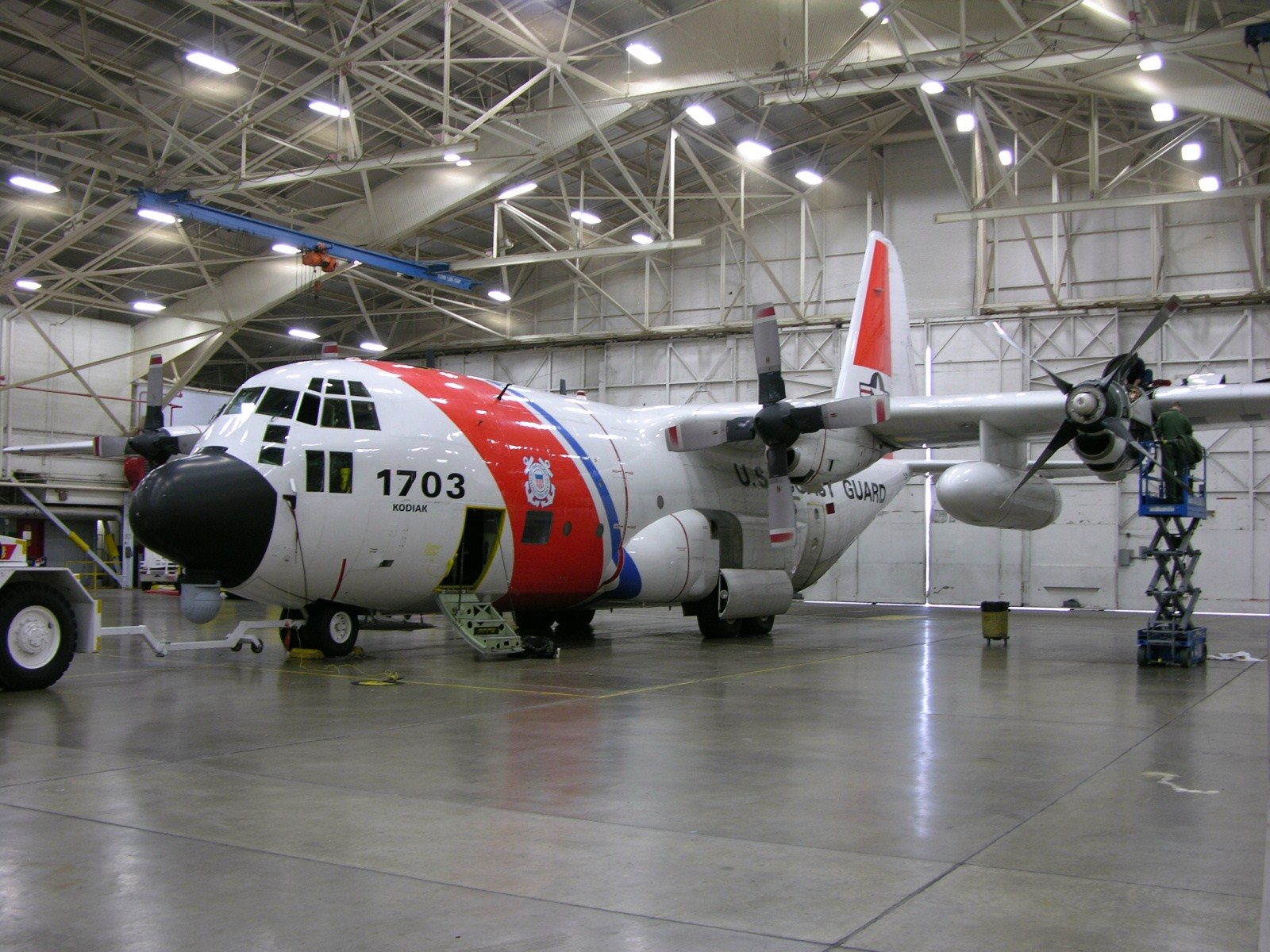 A United States Coast Guard Lockheed HC-130H Hercules from CGAS Kodiak, Alaska (USA), undergoing maintenance at Sacramento, California (USA).